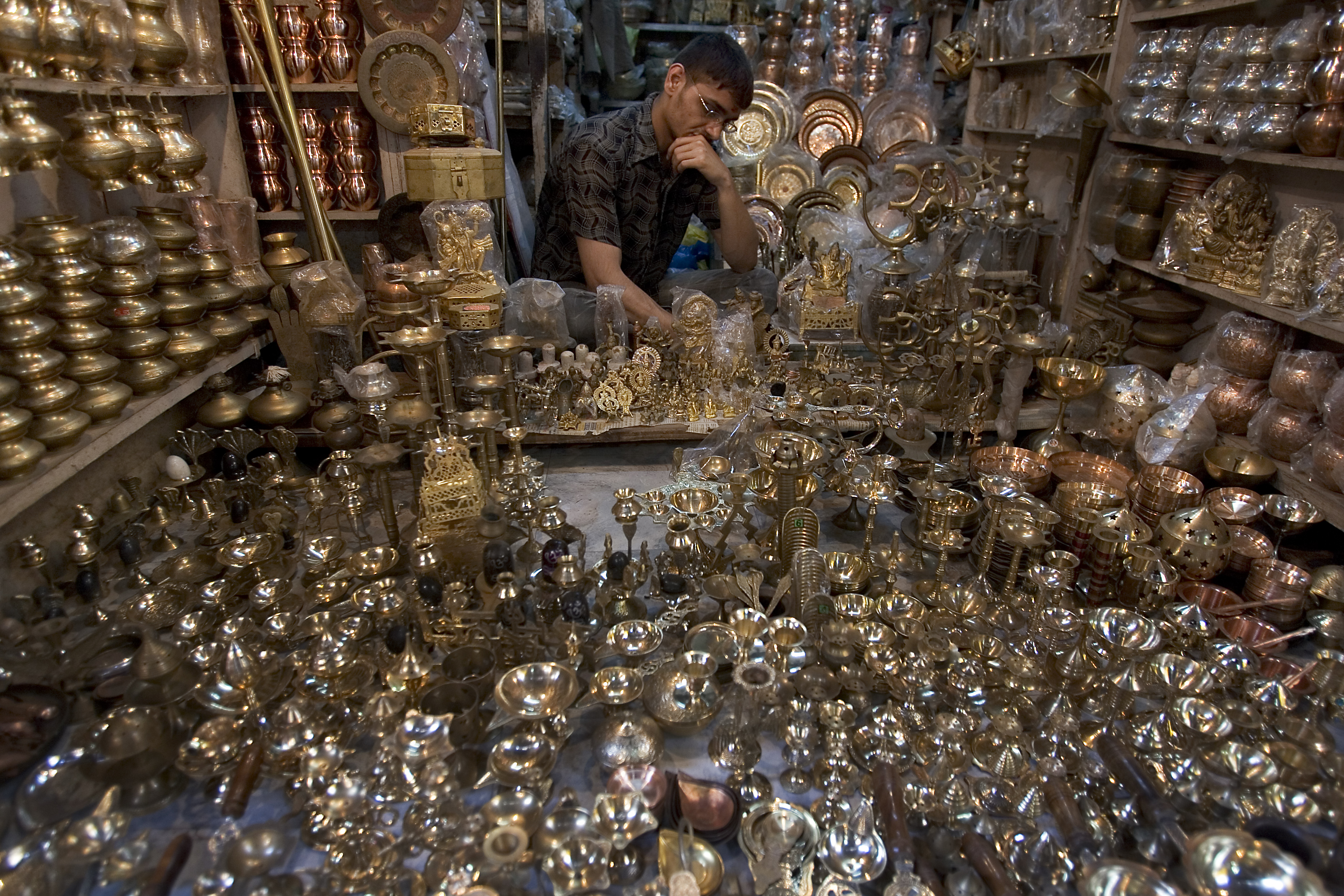 Brass seller in the Main market Varanasi Benares India